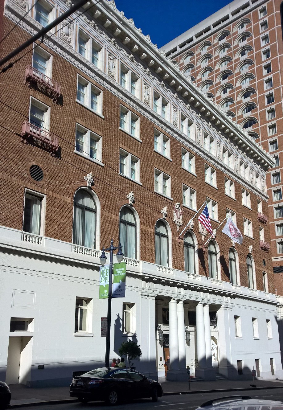 The Olympic Club in San Francisco, viewed from Post Street.